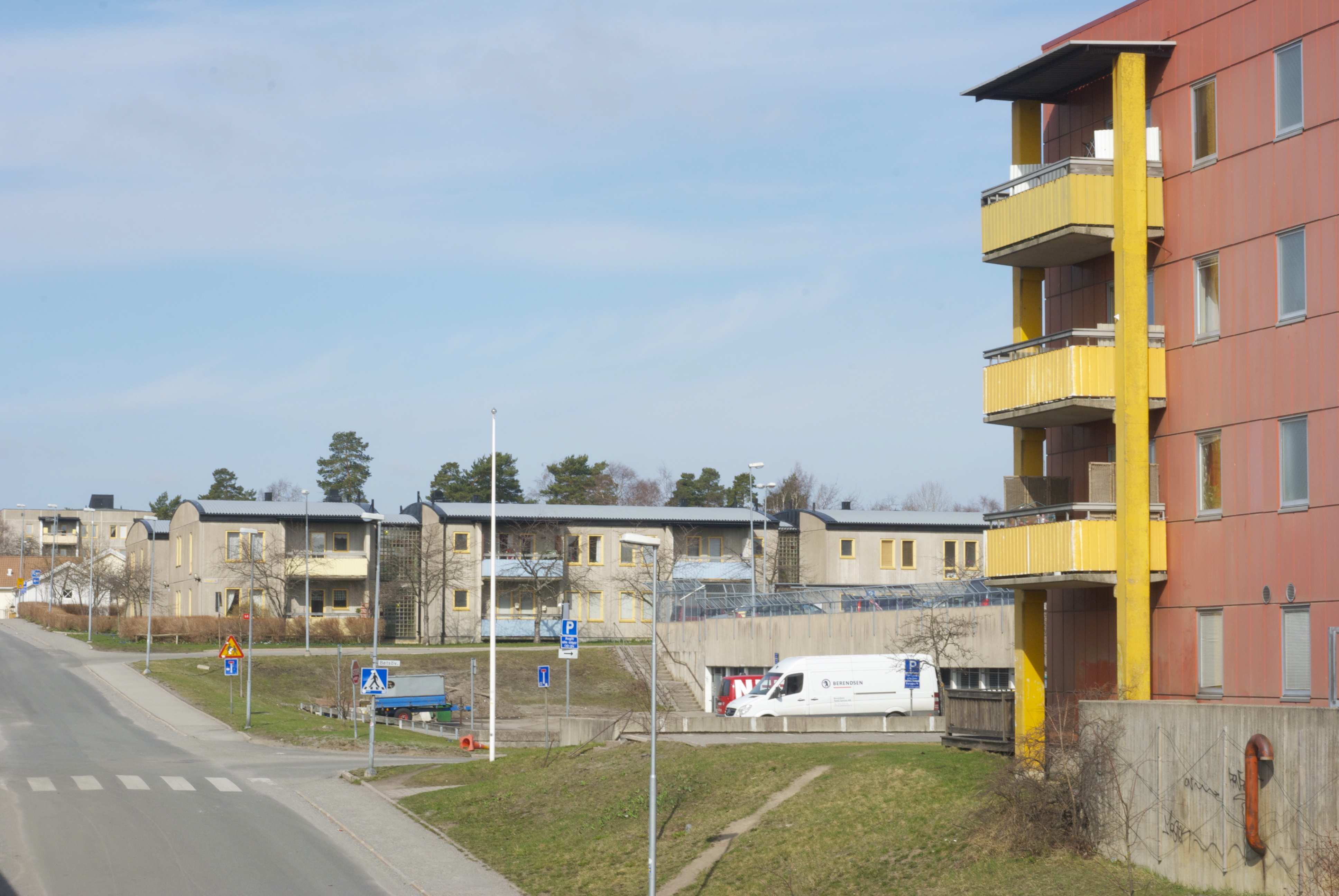 Västra Orminge, sett från Orminge centrum i april 2011.